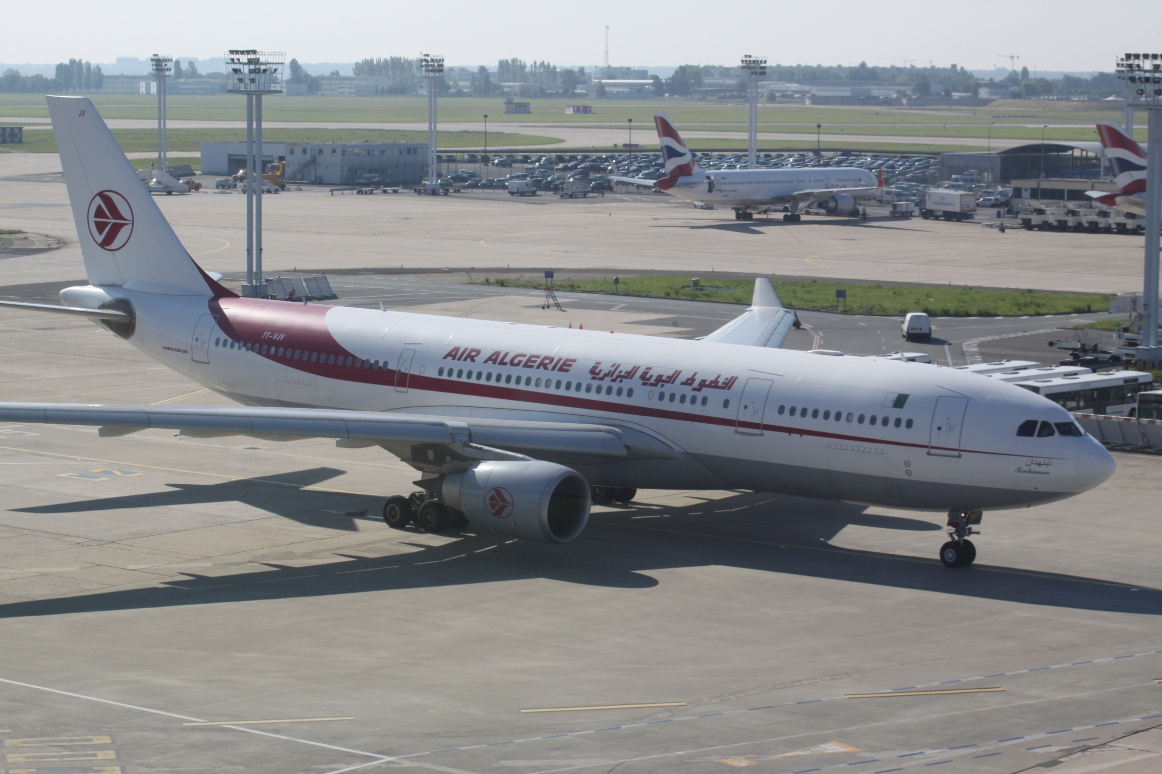 At Paris Orly